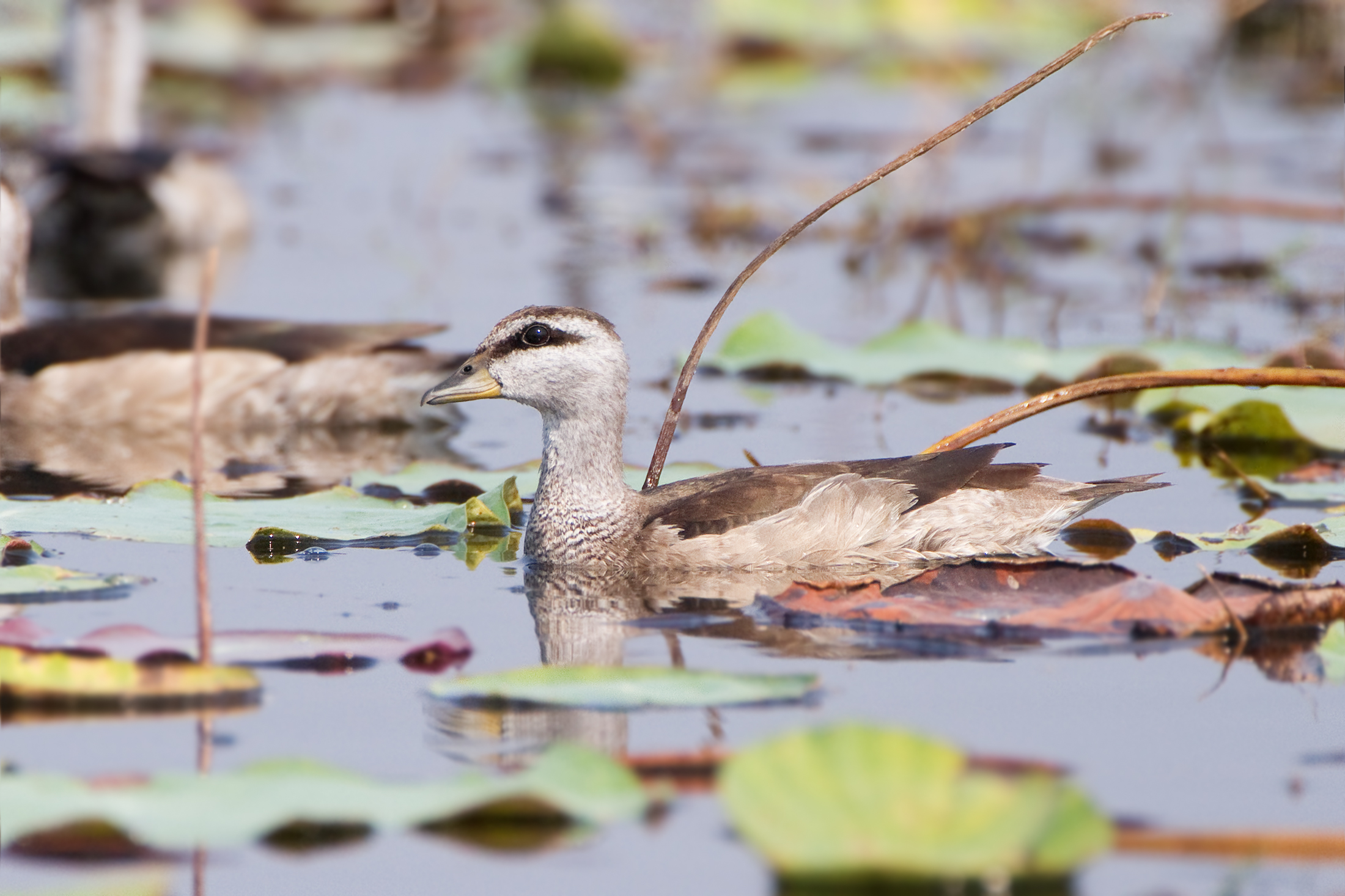 Cotton Pygmy Goose (Nettapus coromandelianus) female, Bueng Boraphet, Phra Non, Nakhon Sawan, Thailand